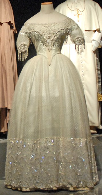 Costumes worn by Teresa Stratas in the film La Traviata directed by Franco Zeffirelli in 1982. Costume designer: Piero Tosi.